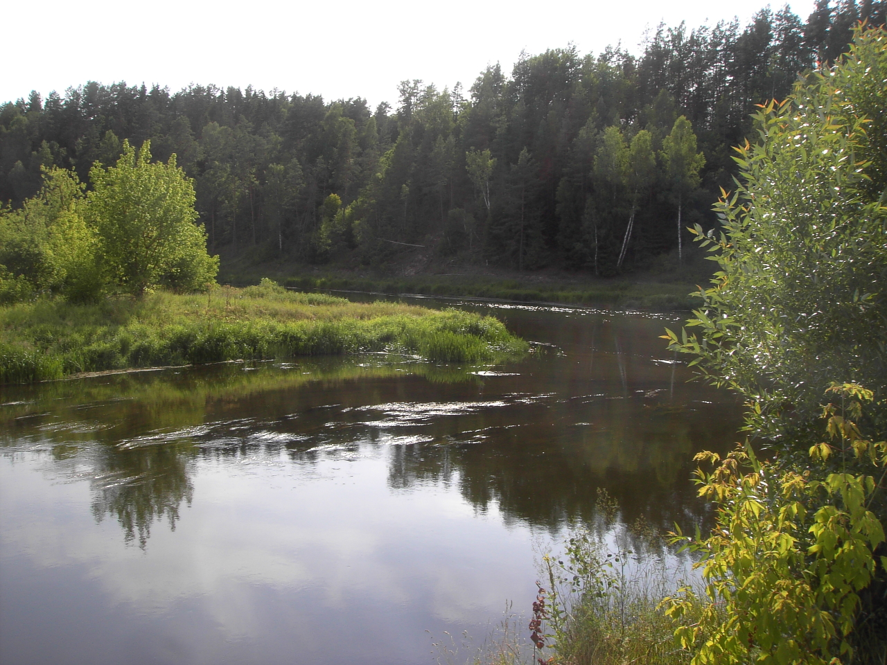 An island in the River Neris by the Village Šiurmonys